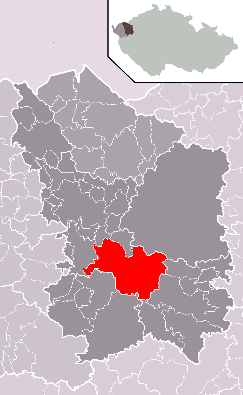 Location of Bochov town within Karlovy Vary District and administrative area of Karlovy Vary as a Municipality with Extended Competence.